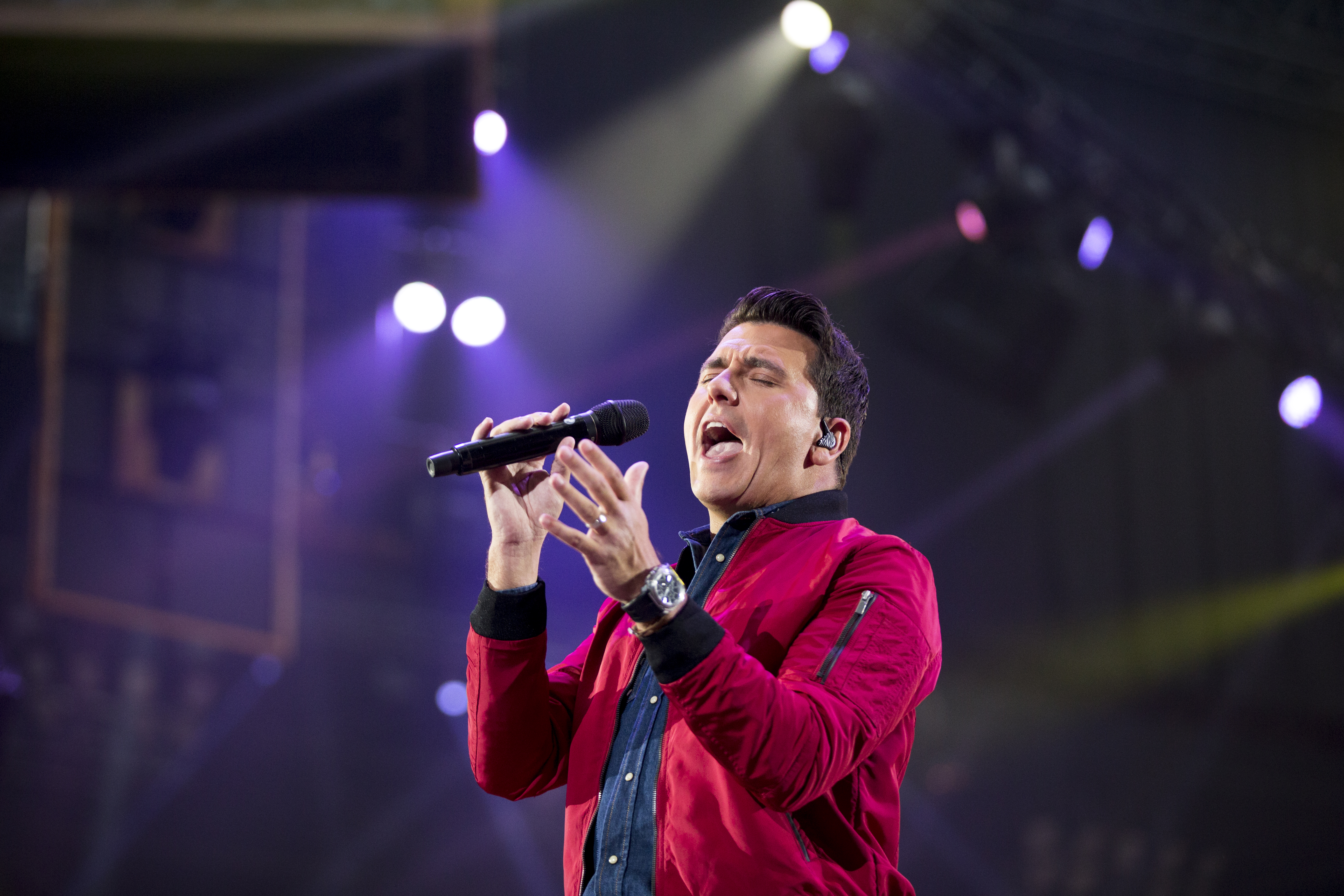 Jan Smit tijdens toppers in Concert 2017